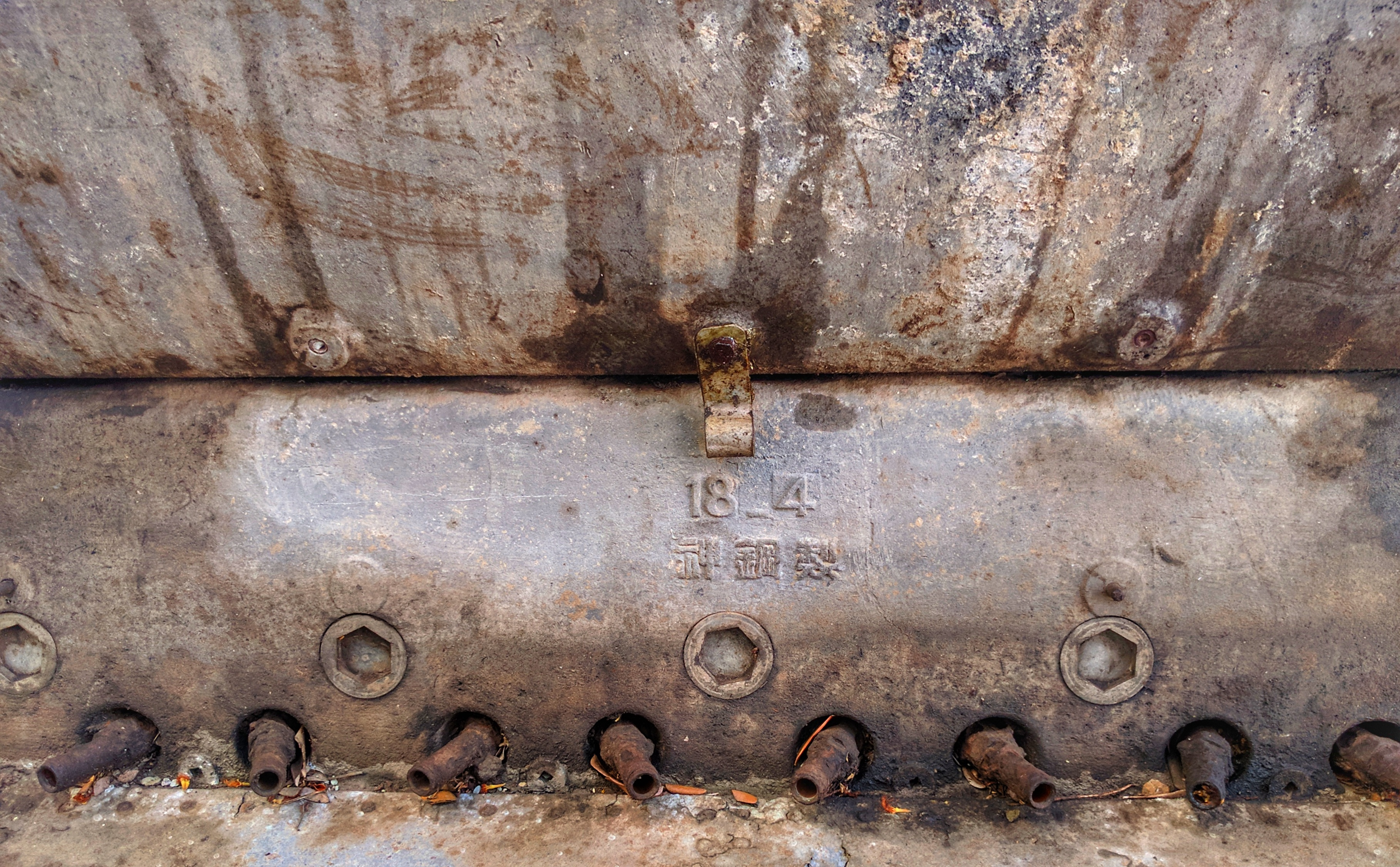 Displayed at the National Museum and Art Gallery, Port Moresby, this may originally have been installed in KI-61-II number 379.